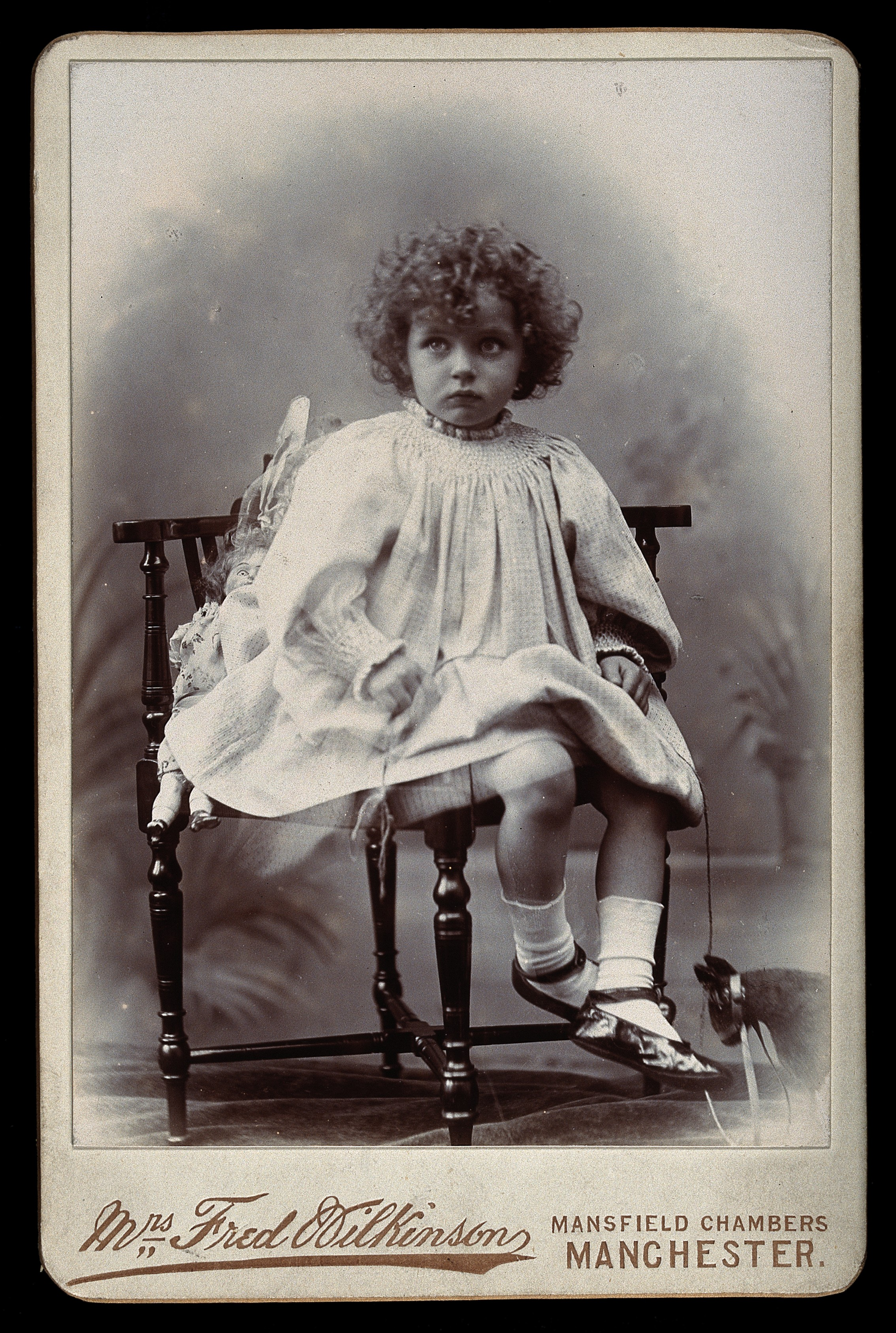 Nora Schuster aged 3, seated, facing forwards. Photograph, c. 1895. Iconographic Collections